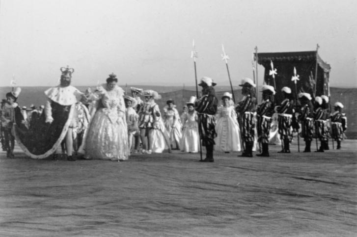 Photograph, Henri IV and Queen Marie de Medicis leave the throne 1608, 2nd Pageant, Quebec, Tercentenary, Quebec City, QC, 1908, Keystone View Company July 25, 1908, Silver salts - Gelatin silver process - 7.7 x 7.6 cm